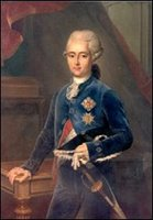 Standard portrait of Fried. III (1744-1794)